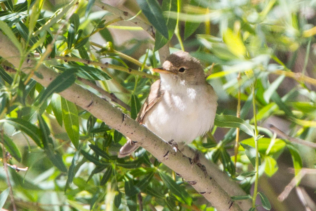 Eastern Olivaceous Warbler (Iduna pallida reiseri)